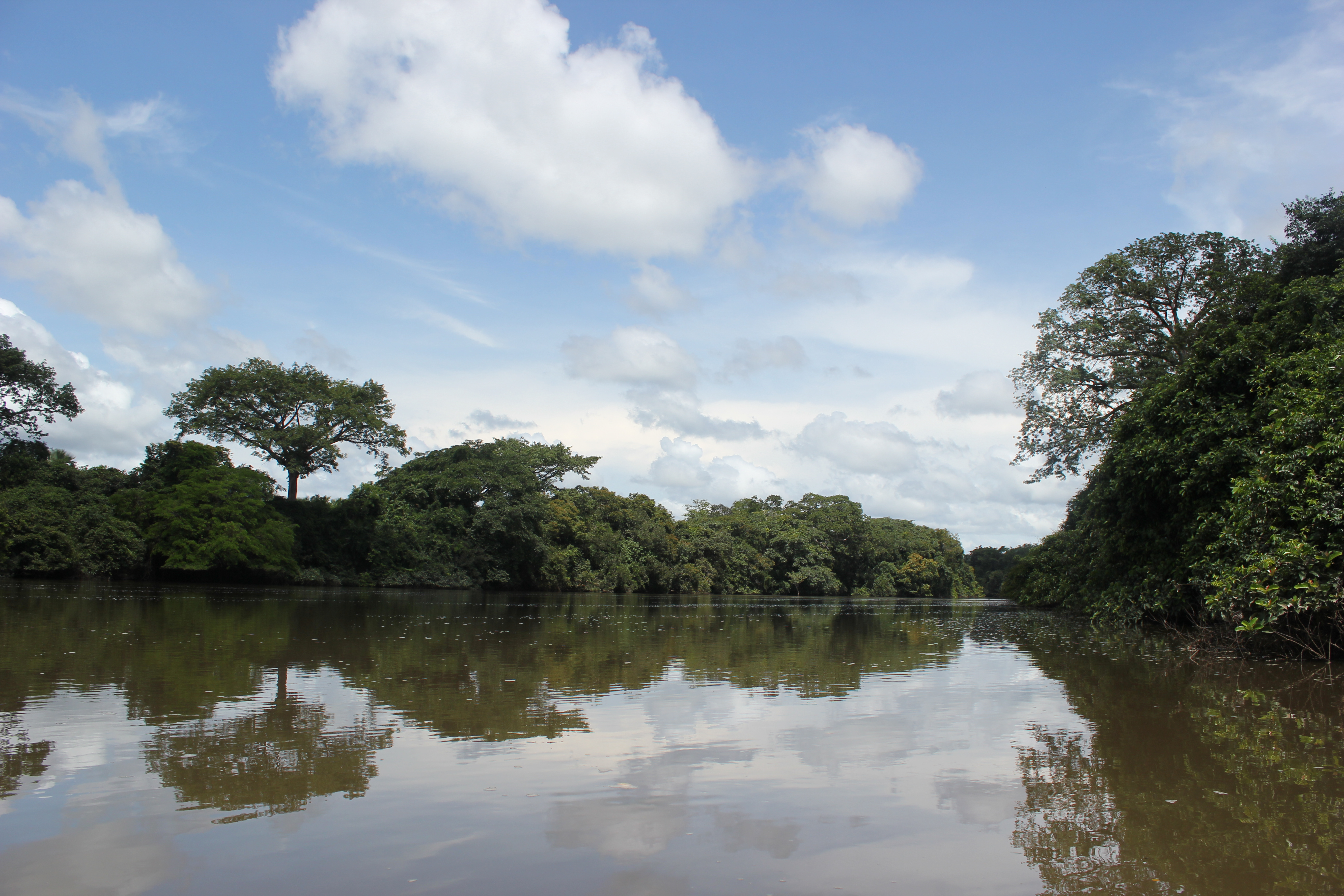 Canoe trip in Outamba Kilimi Park to see the Hippos